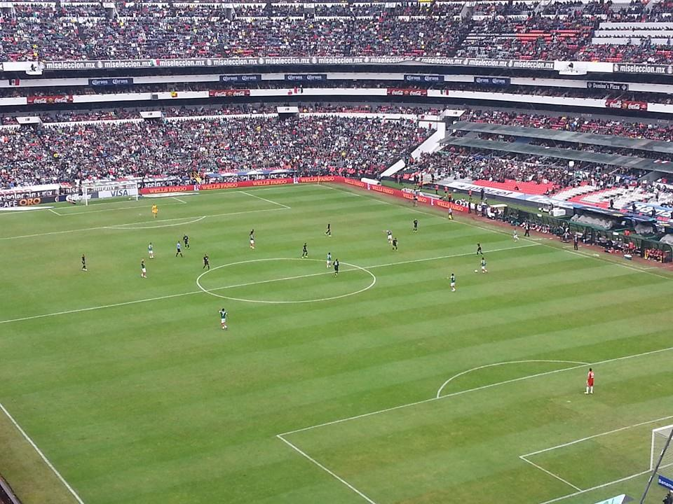 Football (soccer) game in Azteca stadium in Mexico City